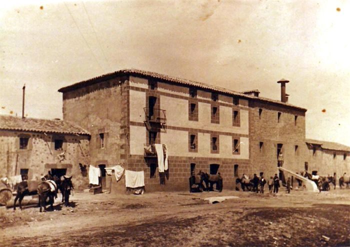 Miño de Medinaceli - Fábrica de harina y comercio en Barrio de la Estación c.193019